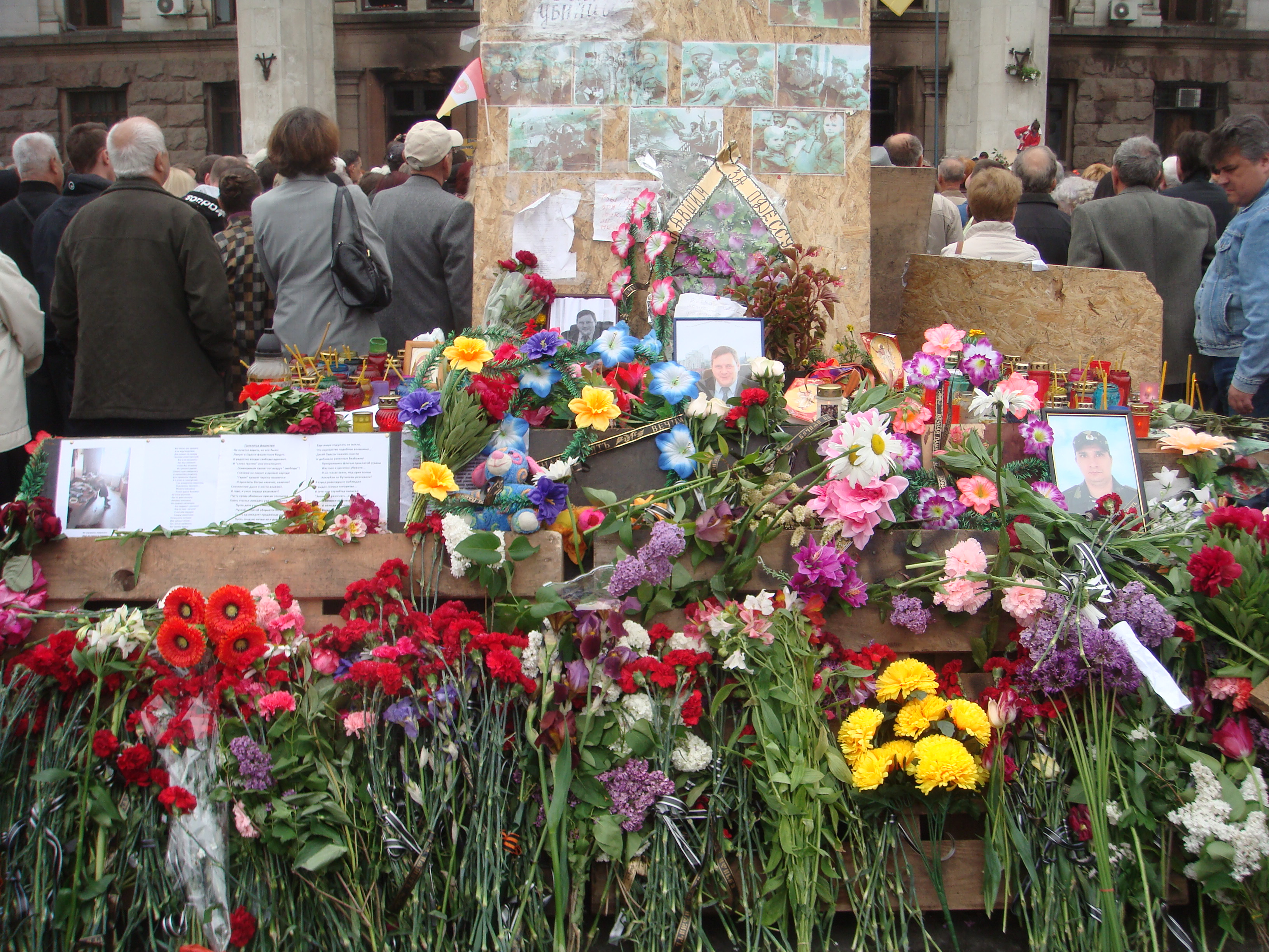 Odessa. Kulikovo Pole square. Wake ceremony on the 9th day of death of victims of Odessa clashes (May the 2nd 2014).